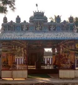 Vallam muthukkan mariamman temple வல்லம் முத்துக்கண் மாரியம்மன் கோயில்